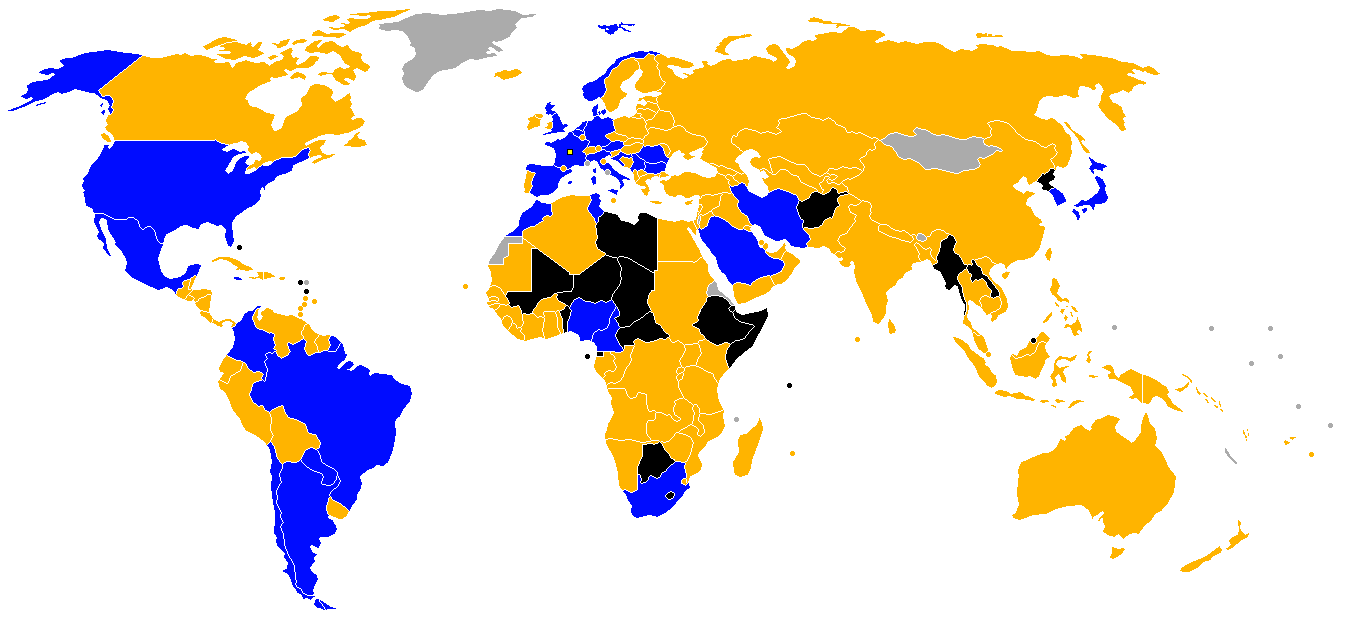 Status of countries with respect to 1998 FIFA World Cup: Qualified for World Cup finals Failed to qualify for World Cup finals Did not enter World Cup Not an associate member of FIFA